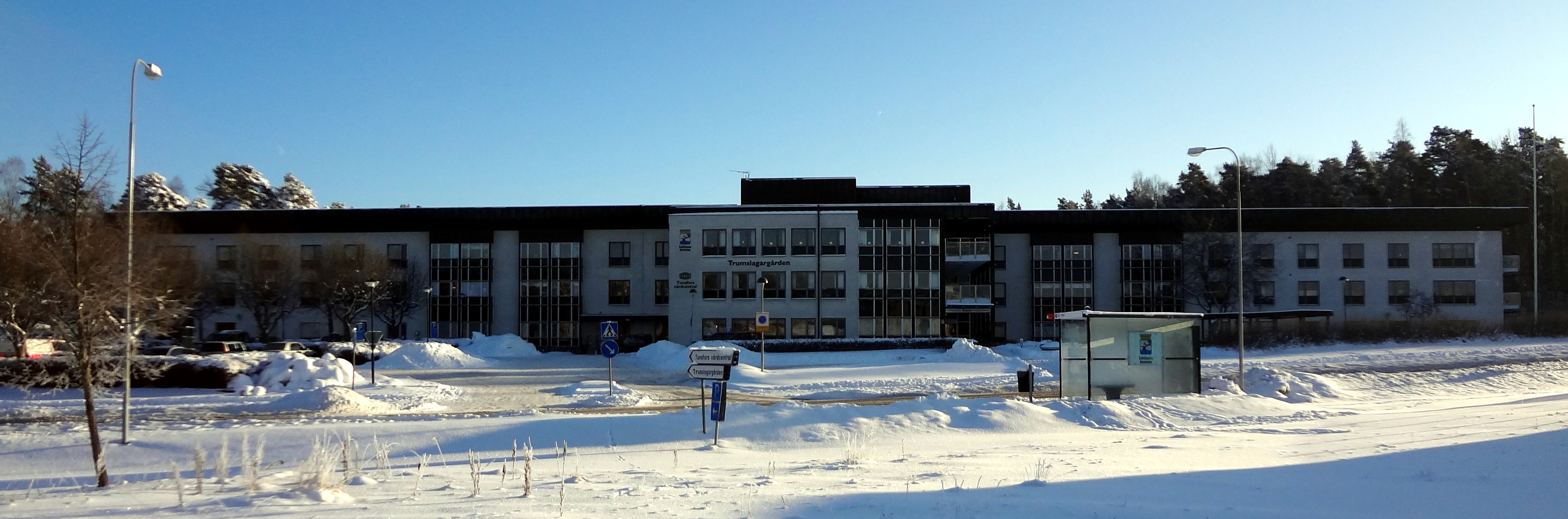 Tunafors vårdcentral in Eskilstuna.